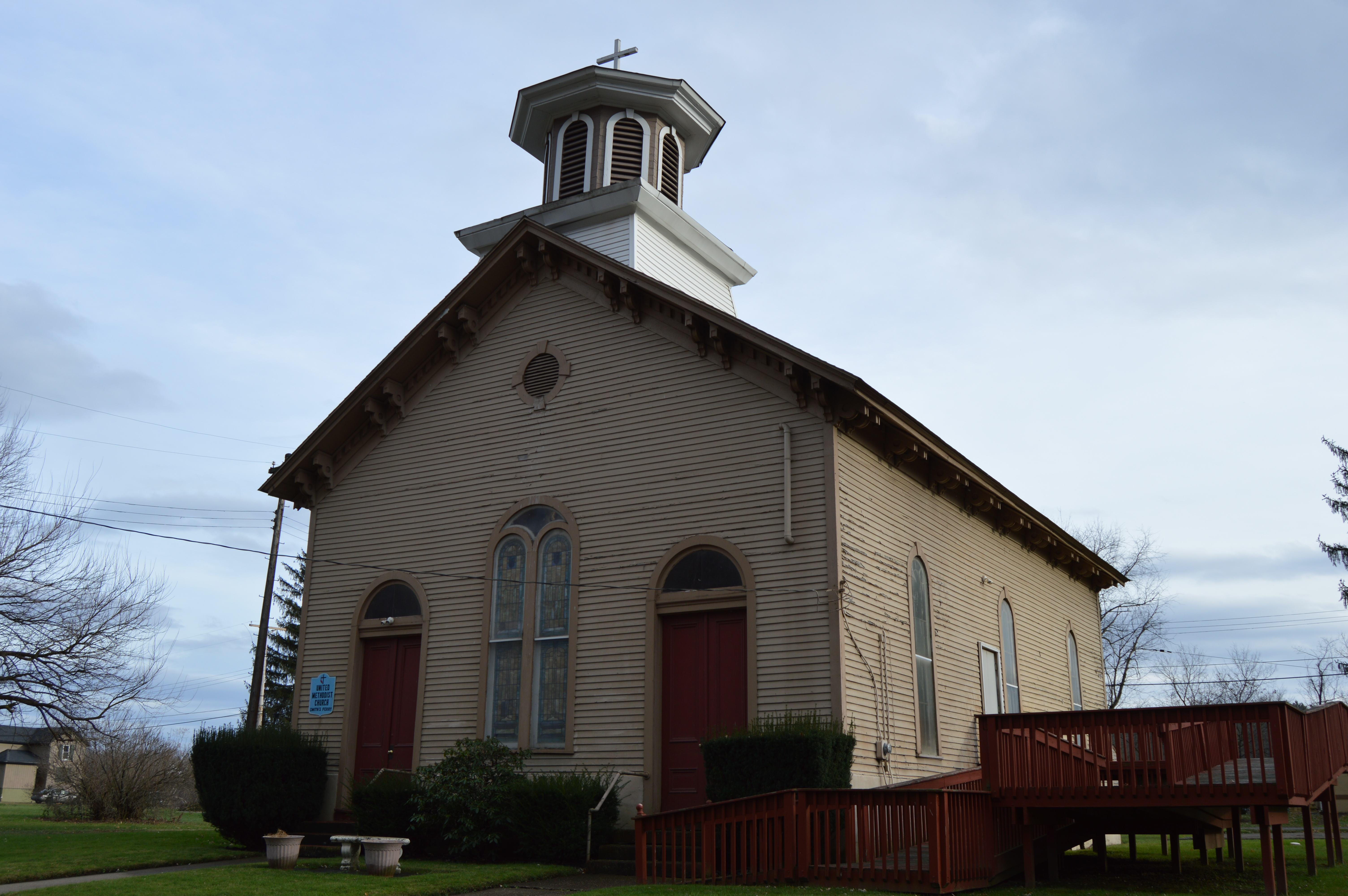 Western side and front of the Smiths Ferry United Methodist Church, located at 110 Liberty Avenue in Glasgow, Pennsylvania, United States.